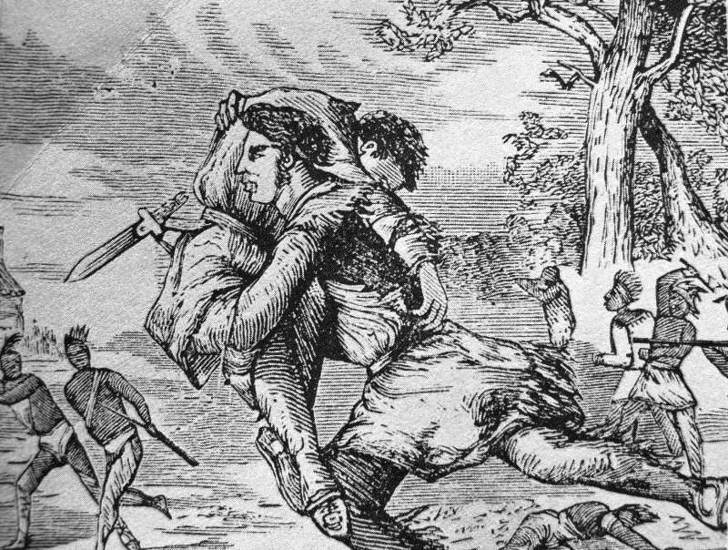 Wood carving of Simon Kenton rescuing Daniel Boone at the Battle of Boonesborough.